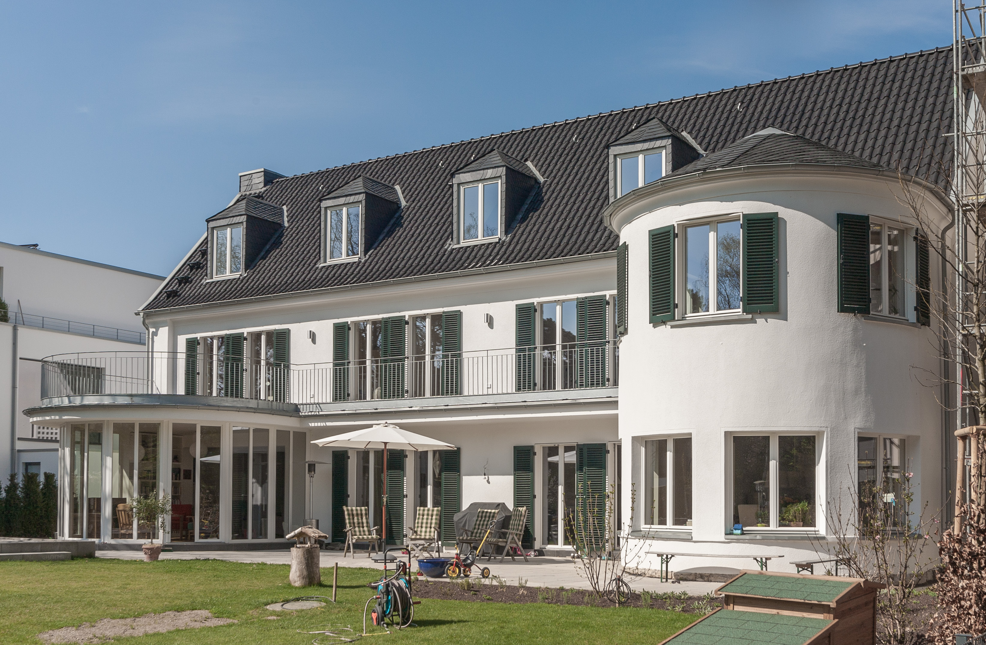 Villa Kiefernweg 12, Bonn: garden side, view from south